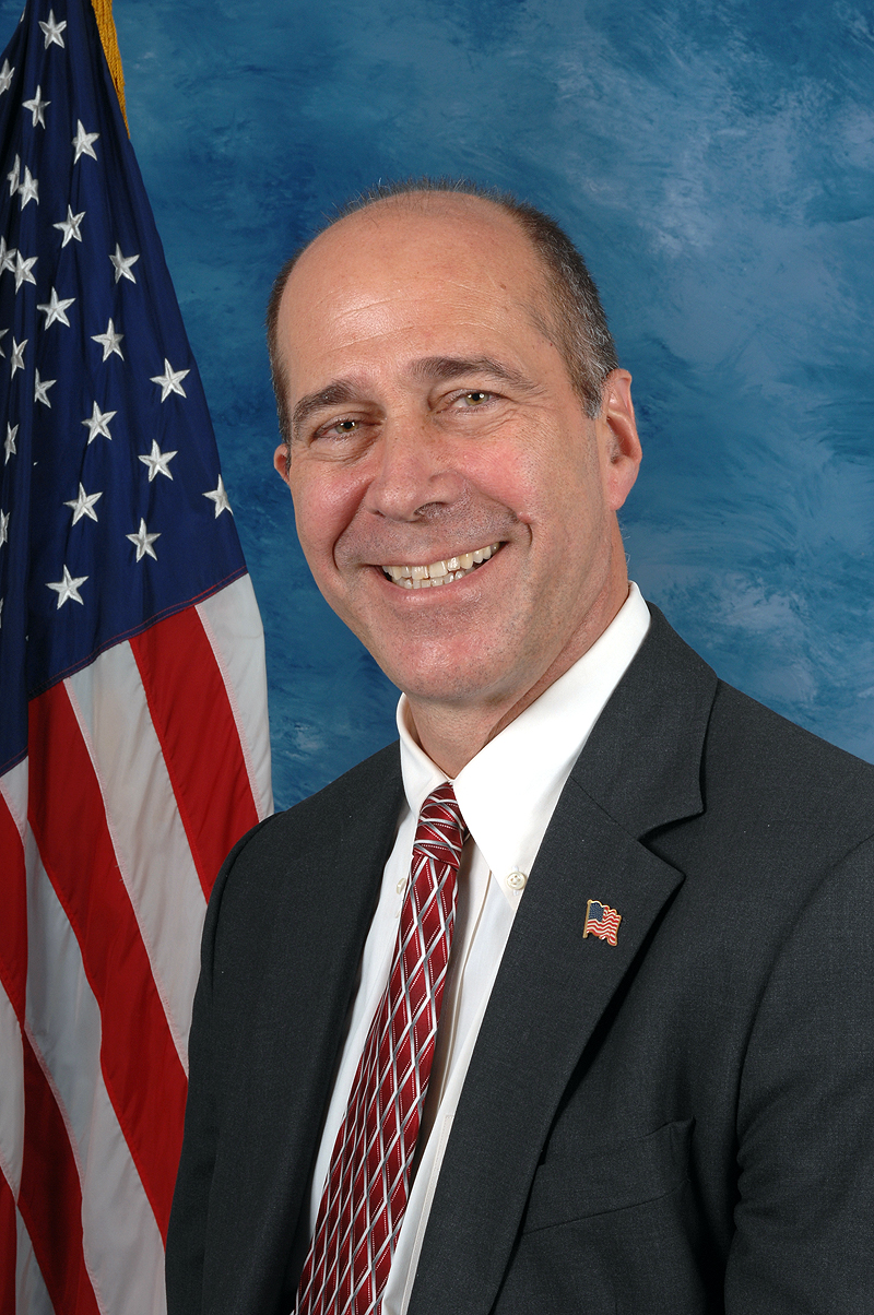 Official portrait of U.S. Rep. John Hall